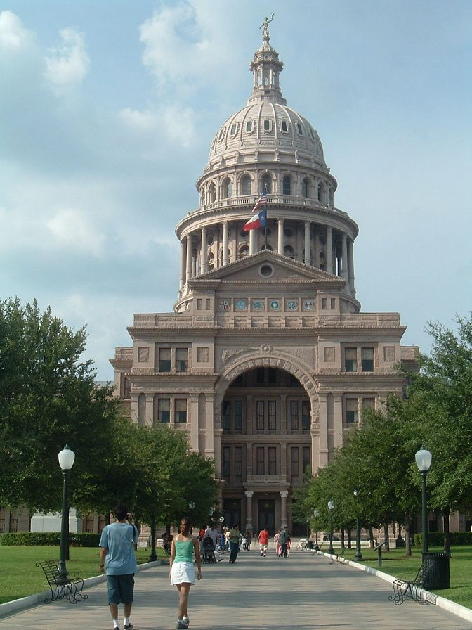 Capitol in Austin